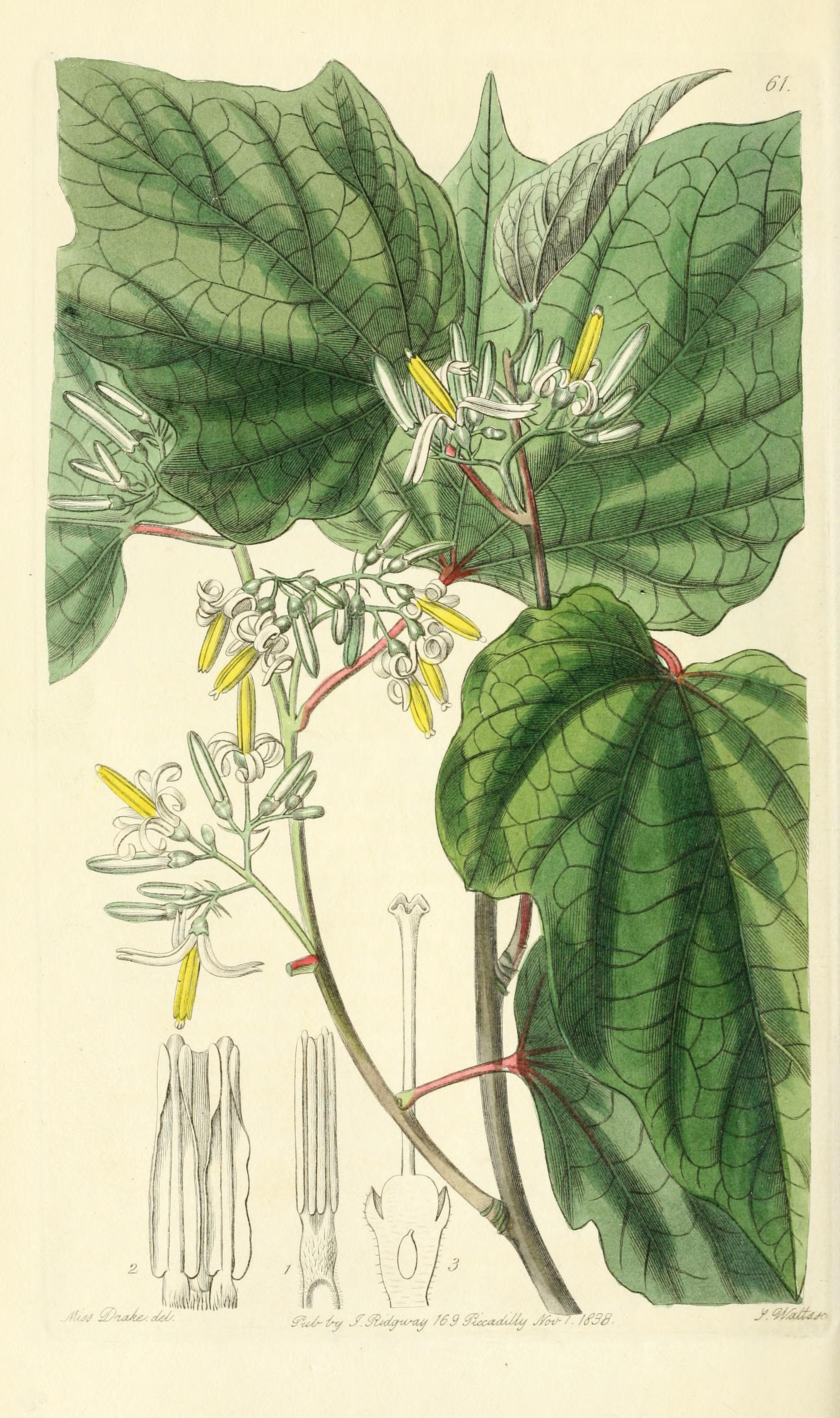 Title: Edwards' botanical register, or, Ornamental flower-garden and shrubbery .. Year: 1829-1847 (1820s) Authors: Edwards, Sydenham, 1769?-1819; Lindley, John, 1799-1865 Subjects: Plants, Ornamental -- Great Britain; Plants, Ornamental -- Great Britain; Plant introduction -- Great Britain; Alien plants -- Great Britain; Botanical illustration -- Great Britain; Botanical illustration -- Great Britain; Plants; Plants Publisher: London : James Ridgway Text Appearing Before Image: ' Text Appearing After Image: f&d-dy y.&H/jpu^Uf /S9SlauteLU(f